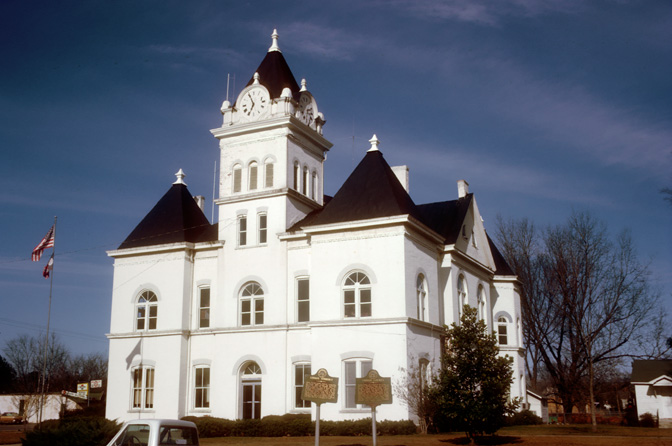 Twiggs County Couthouse in Jeffersonville, Georgia